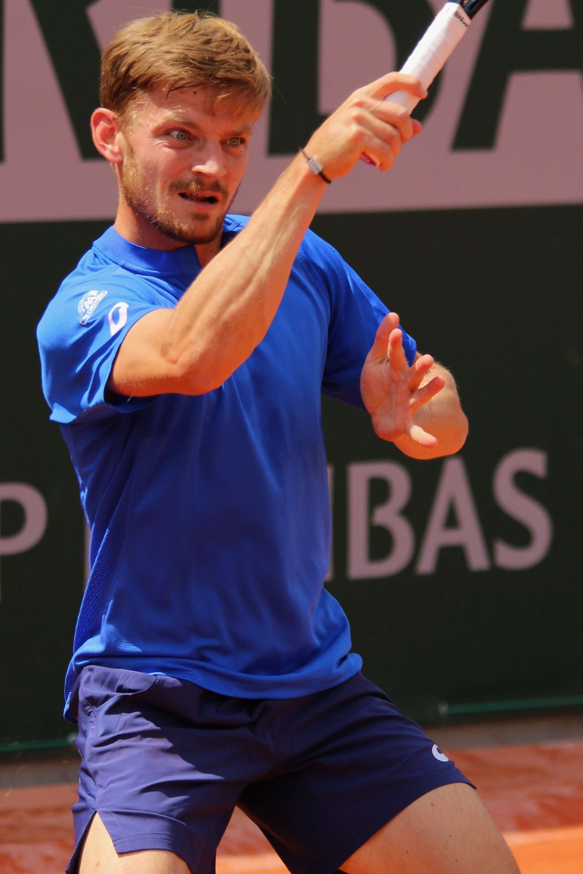 Goffin RG19 (39)